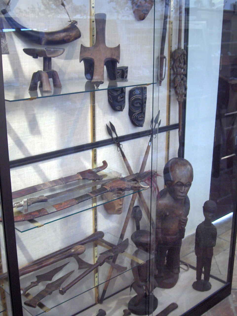 Old artefacts and weapons of Mozambique; regional museum; Lagos, Portugal